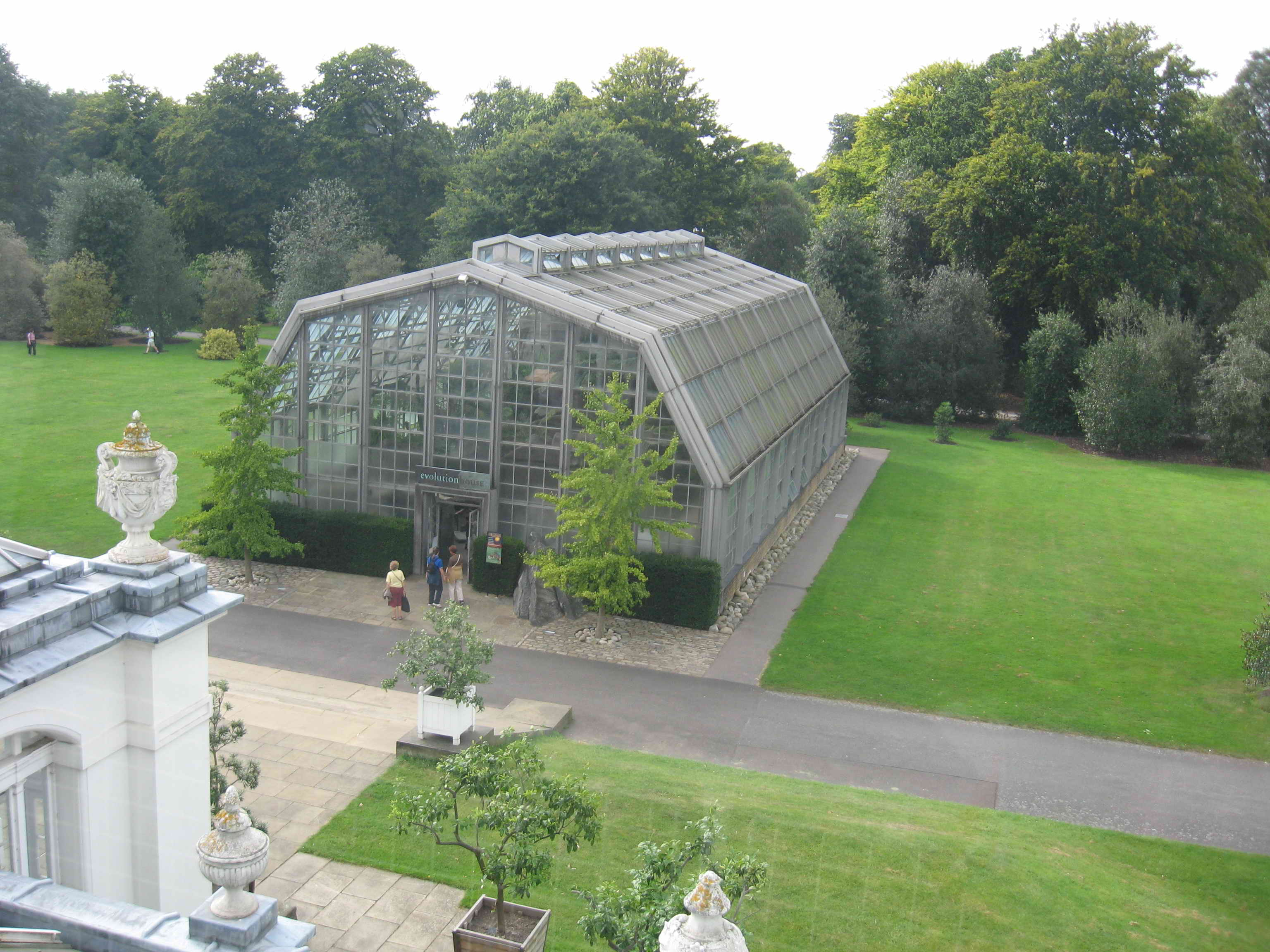 Kew Evolution house